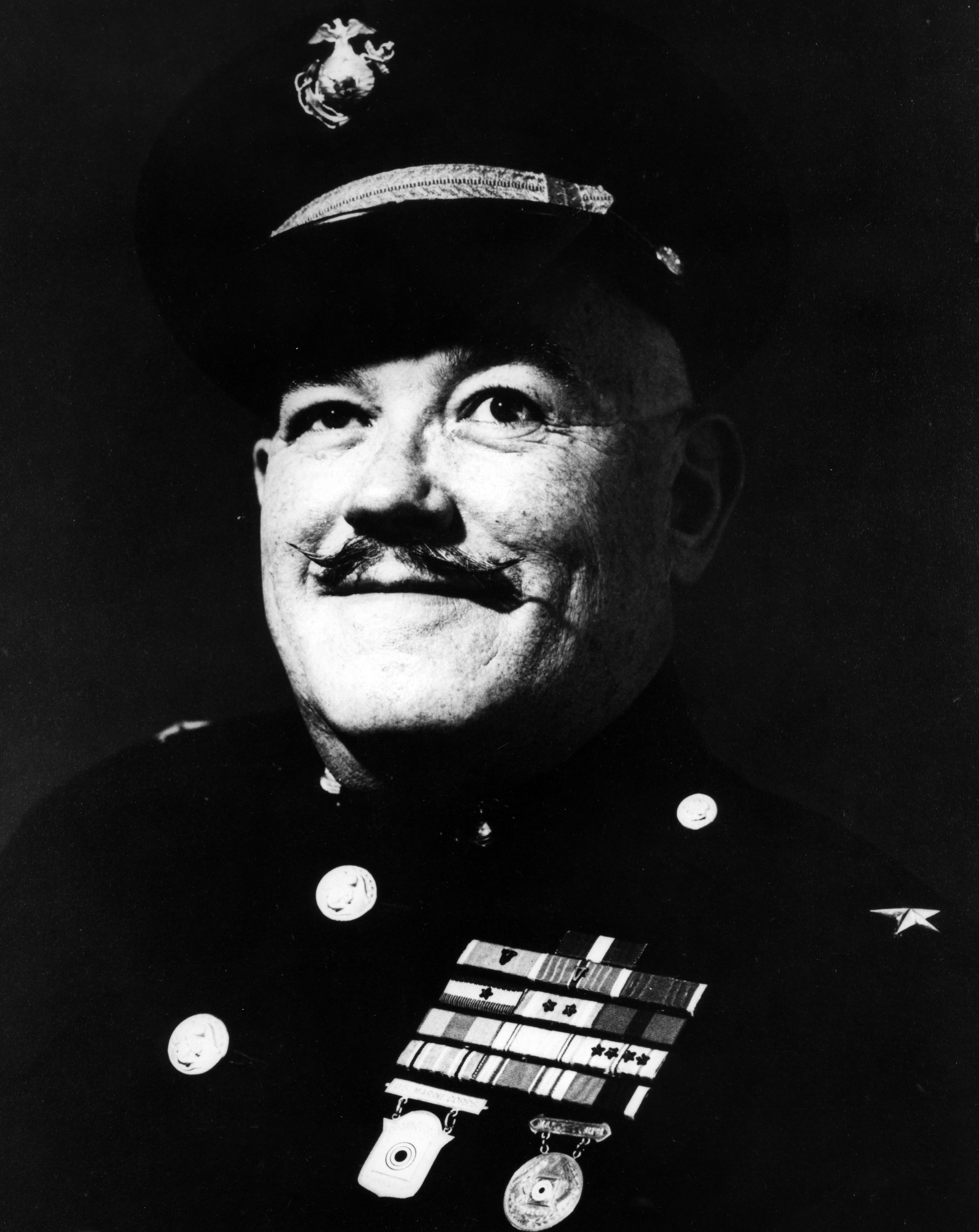 George Owen Van Orden (September 9, 1906 - May 13, 1967) was a highly decorated officer of the United States Marine Corps with the rank of Brigadier General. He is most noted for his service as Executive officer of 3rd Marine Regiment during Bougainville Campaign, where he received Navy Cross, the United States military's second-highest decoration awarded for valor in combat. Van Orden completed his career as Director of First Marine Corps Reserve District in Boston, Massachussetts. He is considered as the "Father of Marine Snipers" due to his work in co-authorship in 1942 of a Marine Corps report recommending adoption of the M70 rifle with Unertl 8X scope for military use (ultimately unsuccessful) and his subsequent role establishing the training program for USMC snipers.